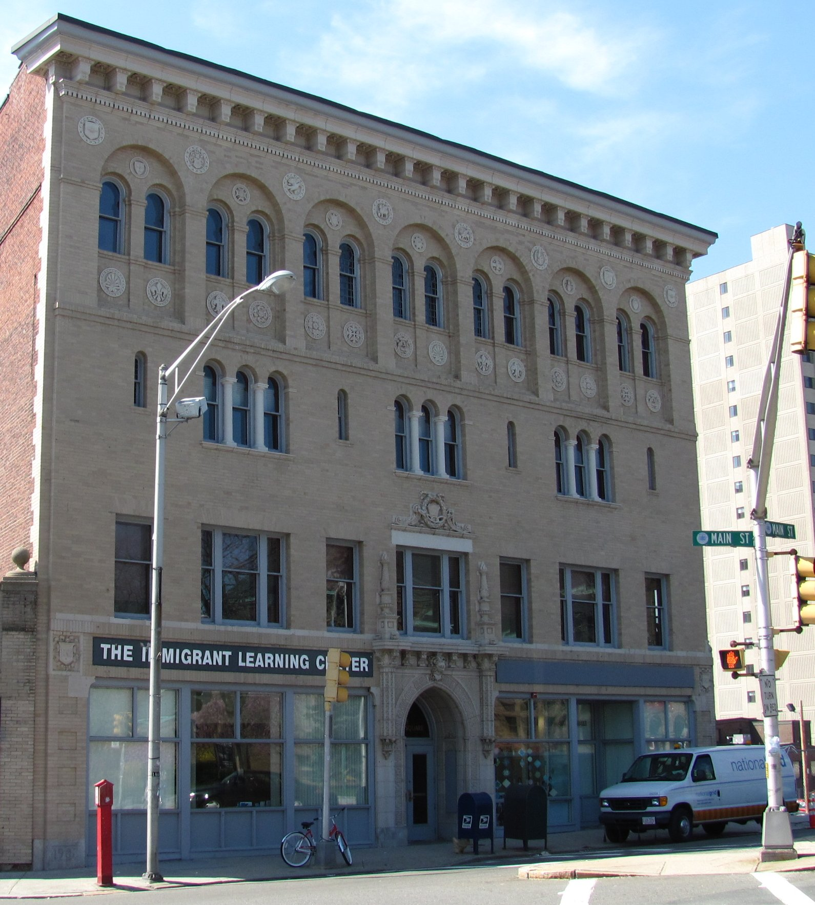 Odd Fellows Building, Malden Massachusetts, April 2010 Crop out not-particularly-attractive surroundings from original, but keep resolution so detail of mouldings on facsia still distinguishable.